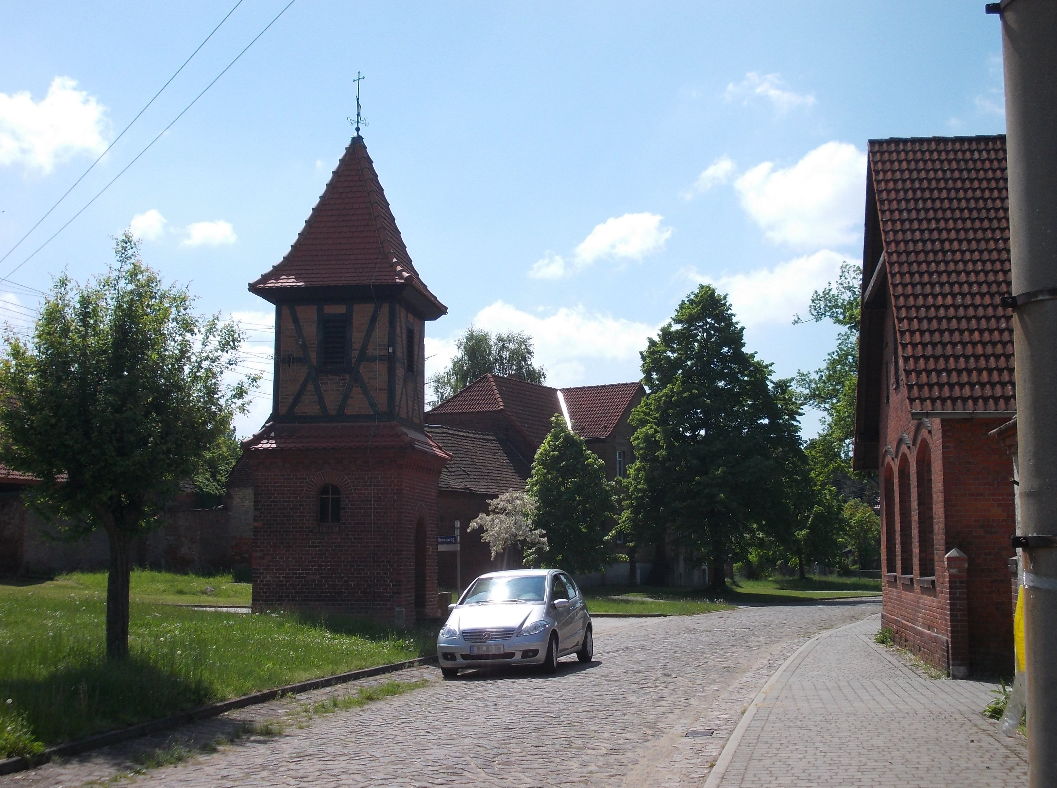 Bell tower ("school bell") in Uthausen (Kemberg, Wittenberg district, Saxony-Anhalt)